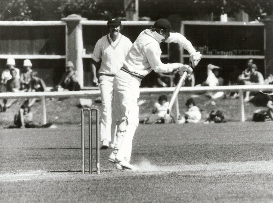 February 1978, Basin Reserve, Wellington AAQT 6539 W3537 box 16 L7/18/3/153